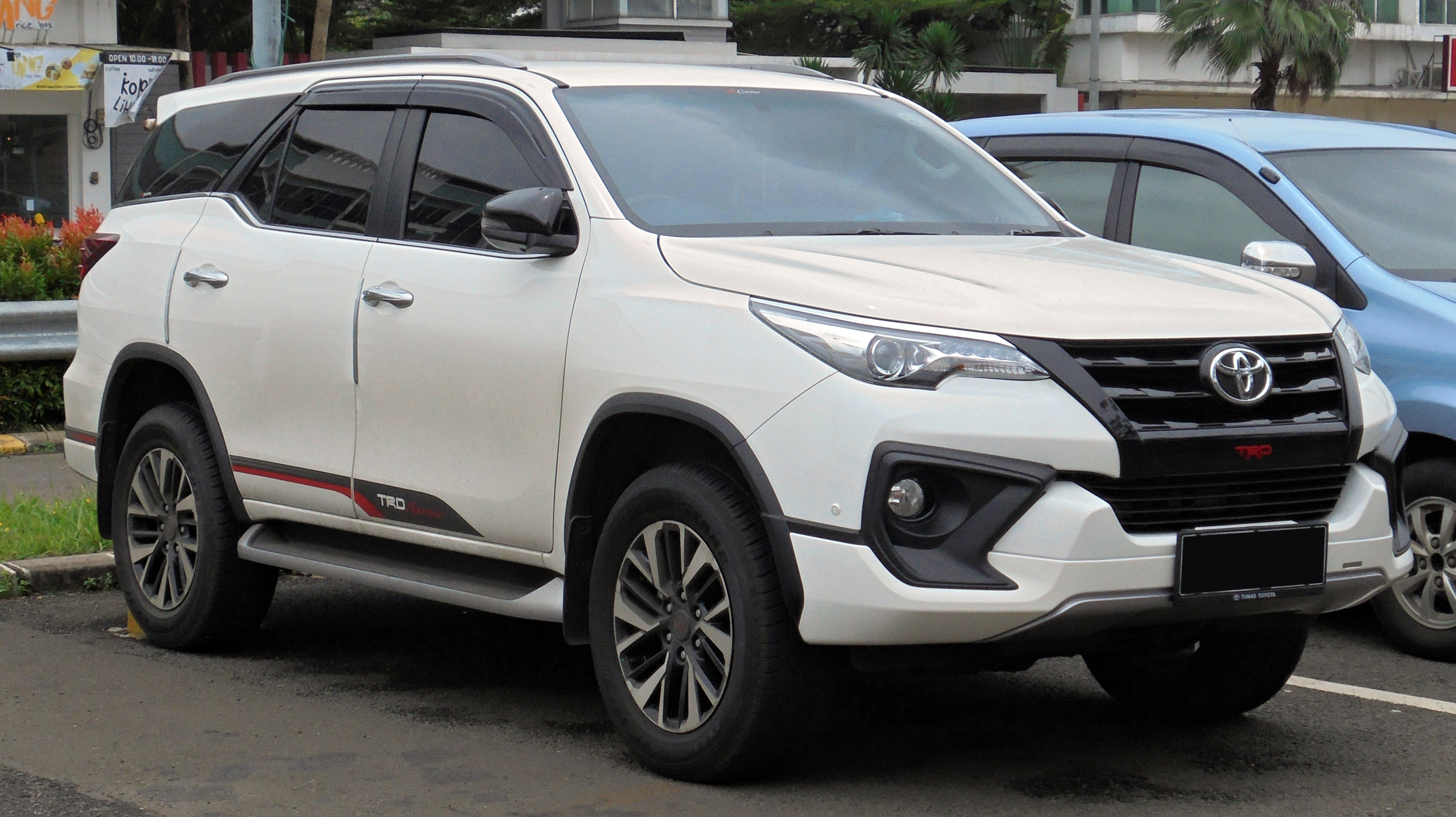 2018 Toyota Fortuner 2.4 VRZ TRD Sportivo wagon (GUN165R) photographed in South Tangerang, Banten, Indonesia.